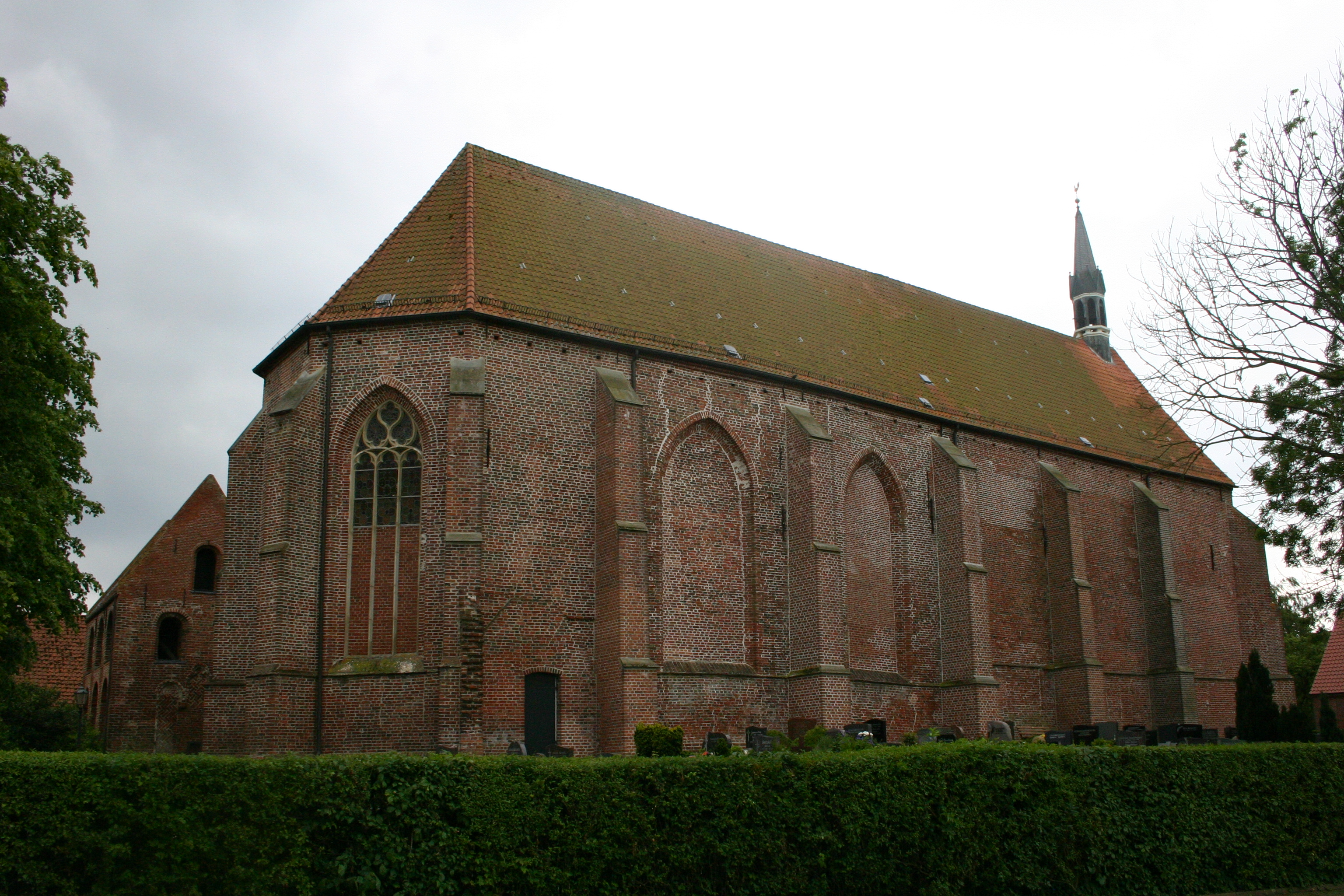 Historic church in Hinte, district of Aurich, East Frisia, Germany